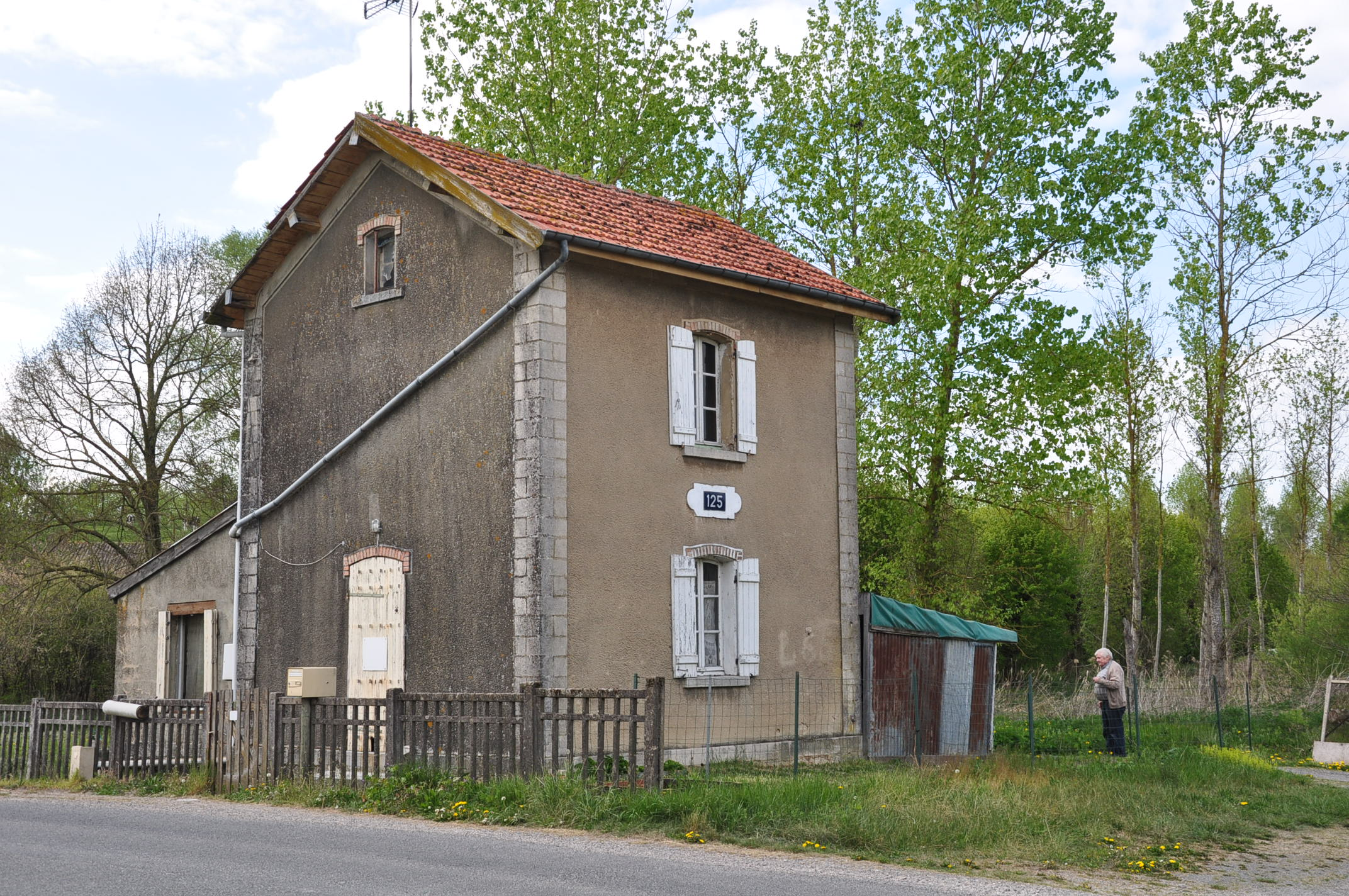 Watchman's House No. 125 along the abandoned railway from Amagne - Lucquy to Revigny in northern France. Here lived the signalman; he opened and closed the barriers when a train passed. The house is near the abandoned station of Villers-en-Argonne/Daucourt and is located in the municipality of Châtrices (Marne department).